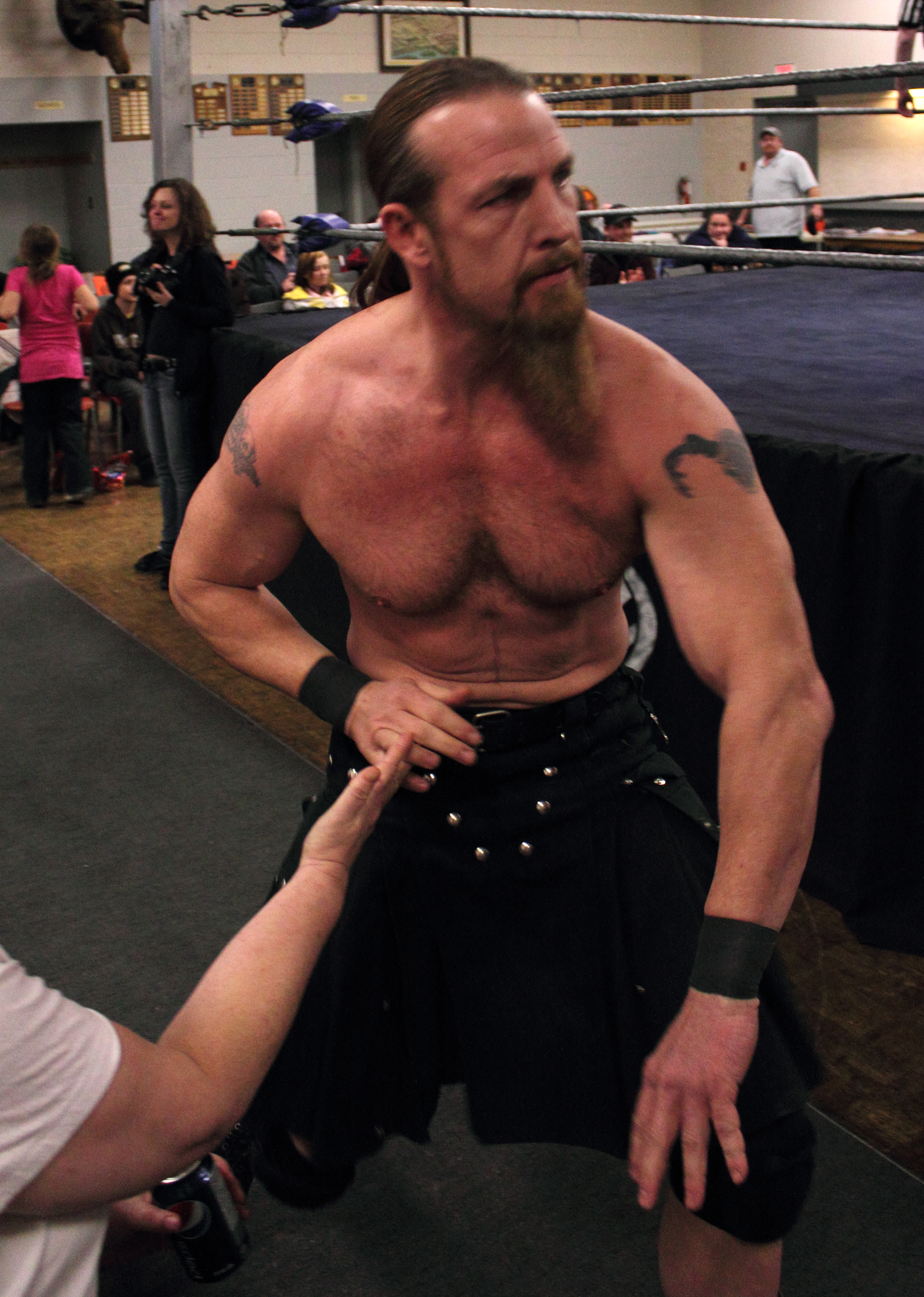 Robbie McAllister at a TCW independent wrestling show in January 2011